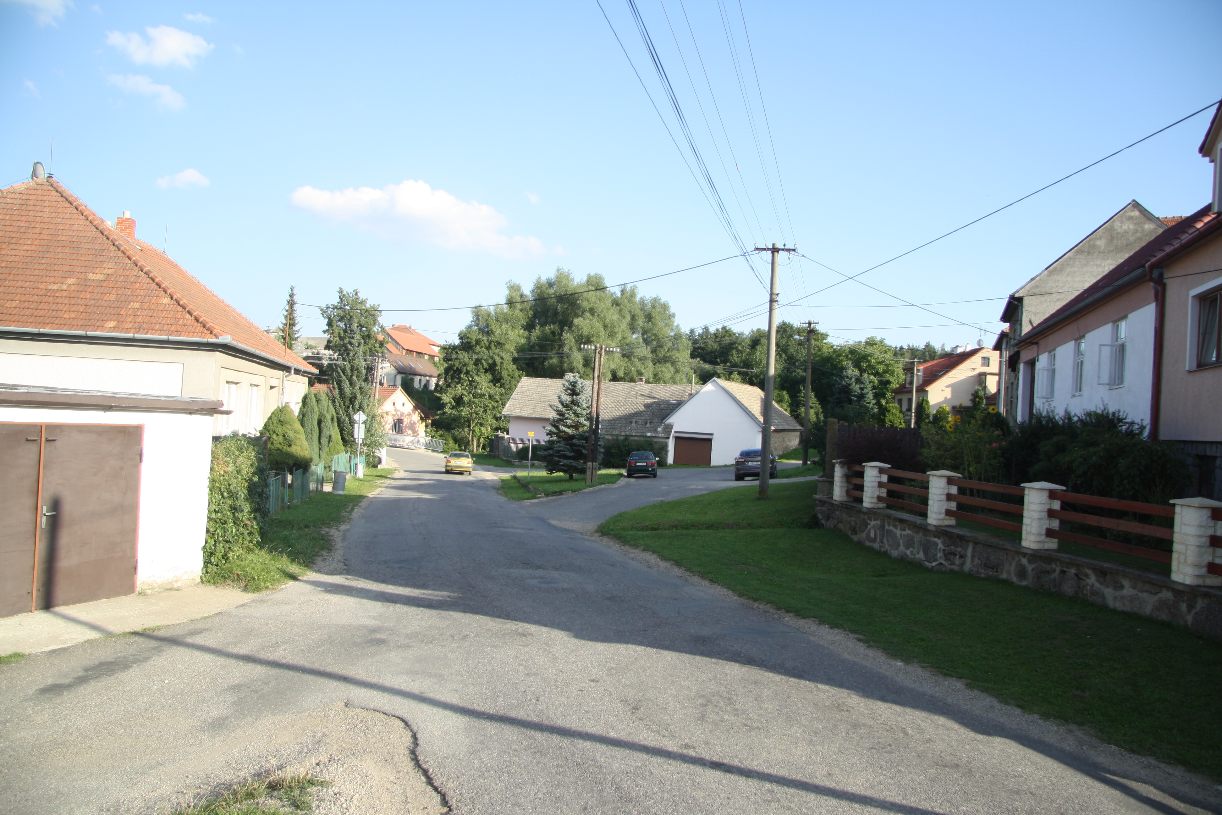 Center of Holubí Zhoř, Velká Bíteš, Žďár nad Sázavou District.